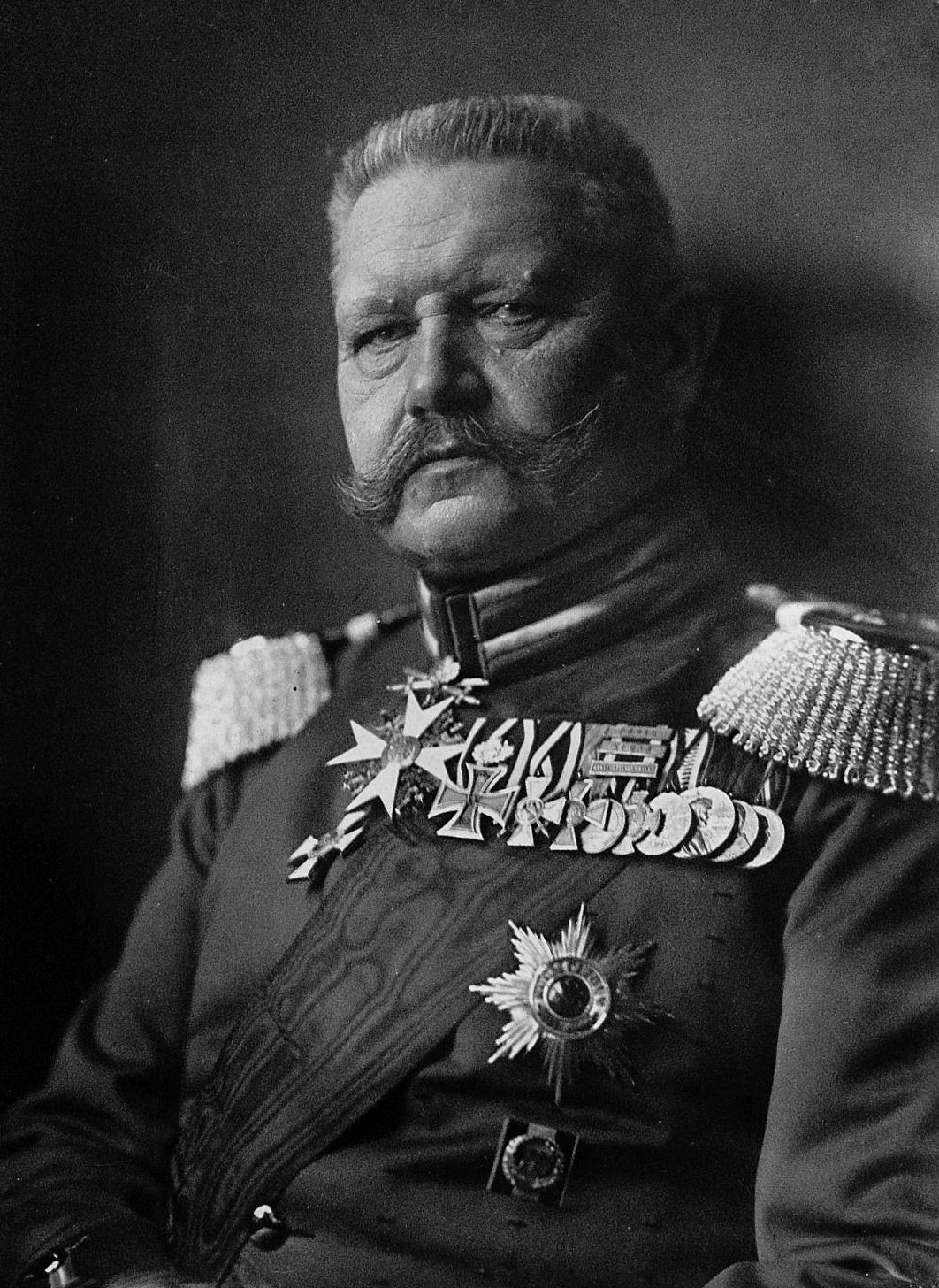 Paul von Hindenburg